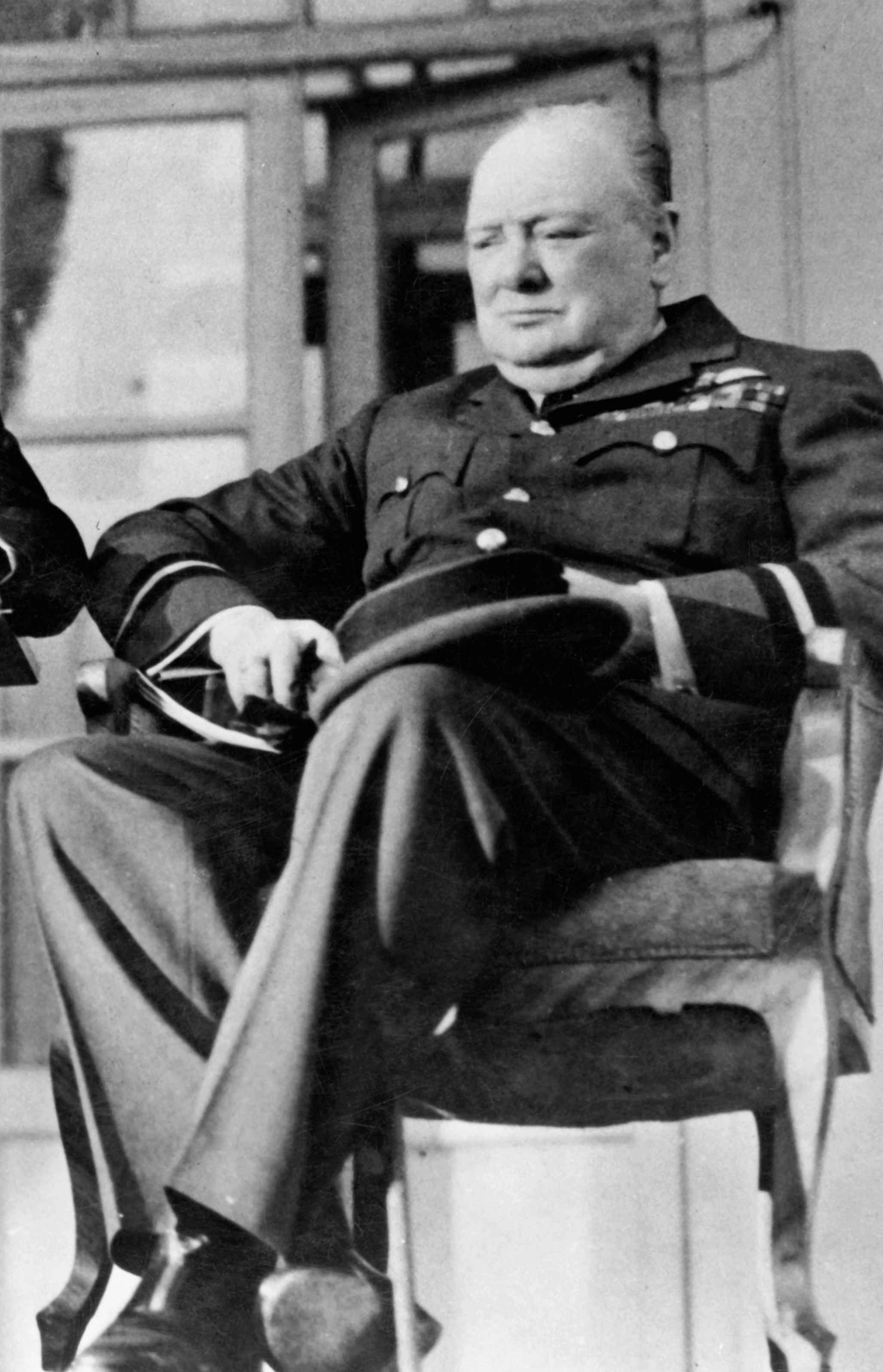 Photograph of Winston Churchill at the Tehran Conference.